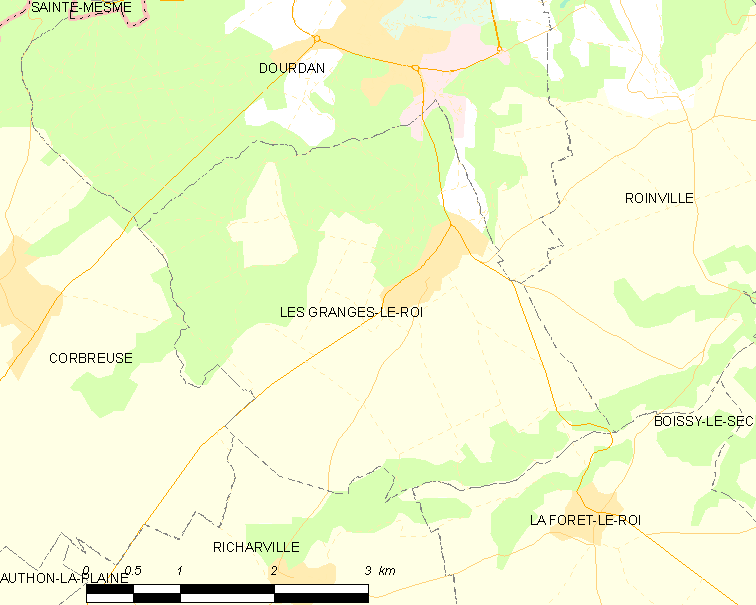 Map of French municipality Les Granges-le-Roi